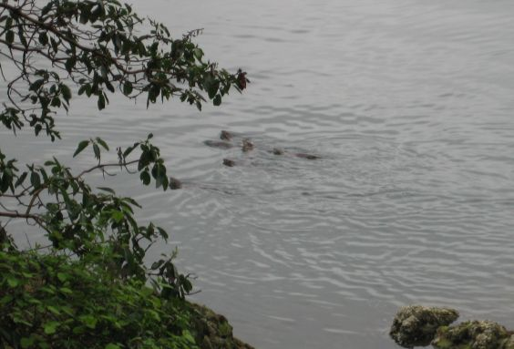 Sea otters swimming